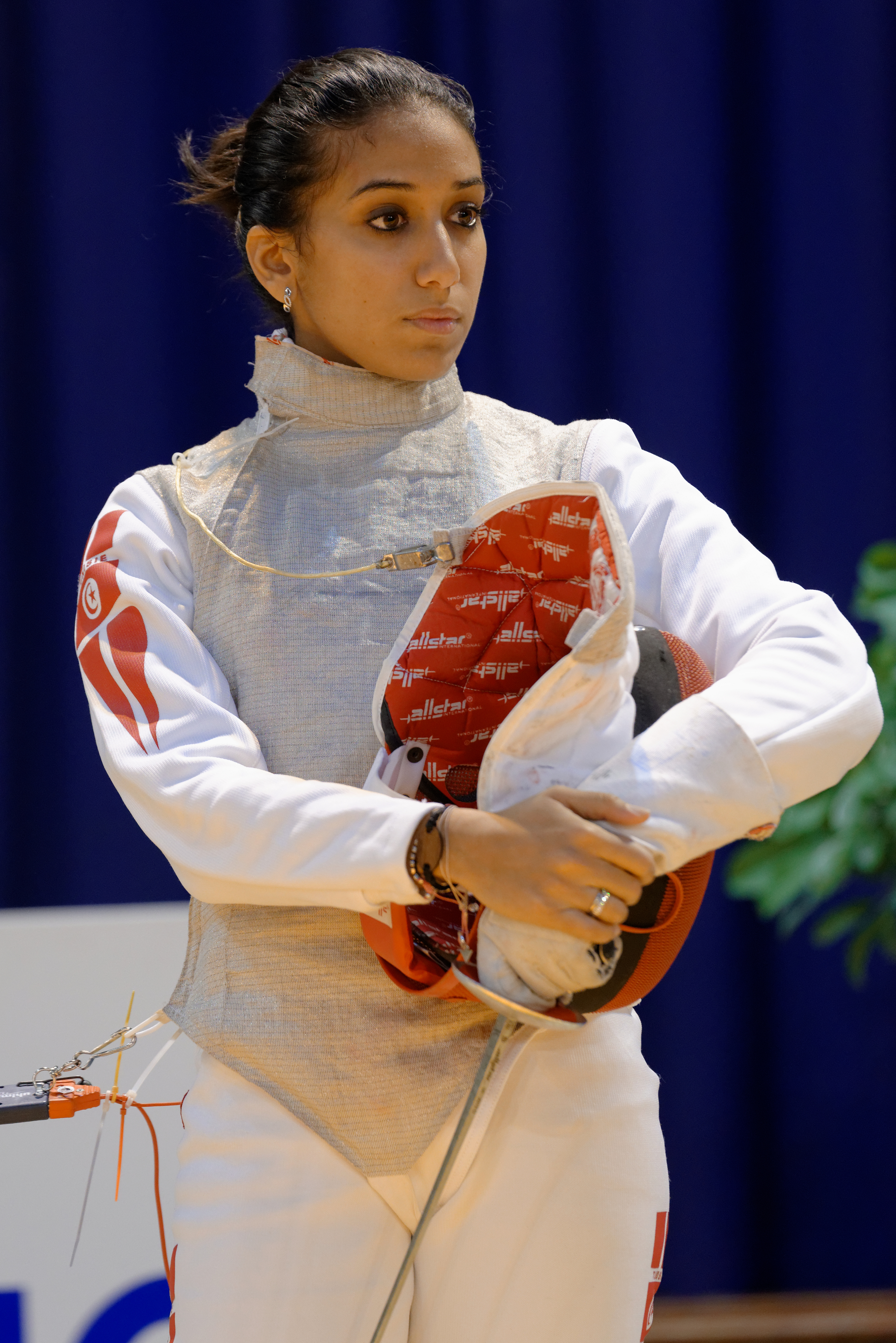 Tunisia's Inès Boubakri at the Saint-Maur Women's Foil World Cup.